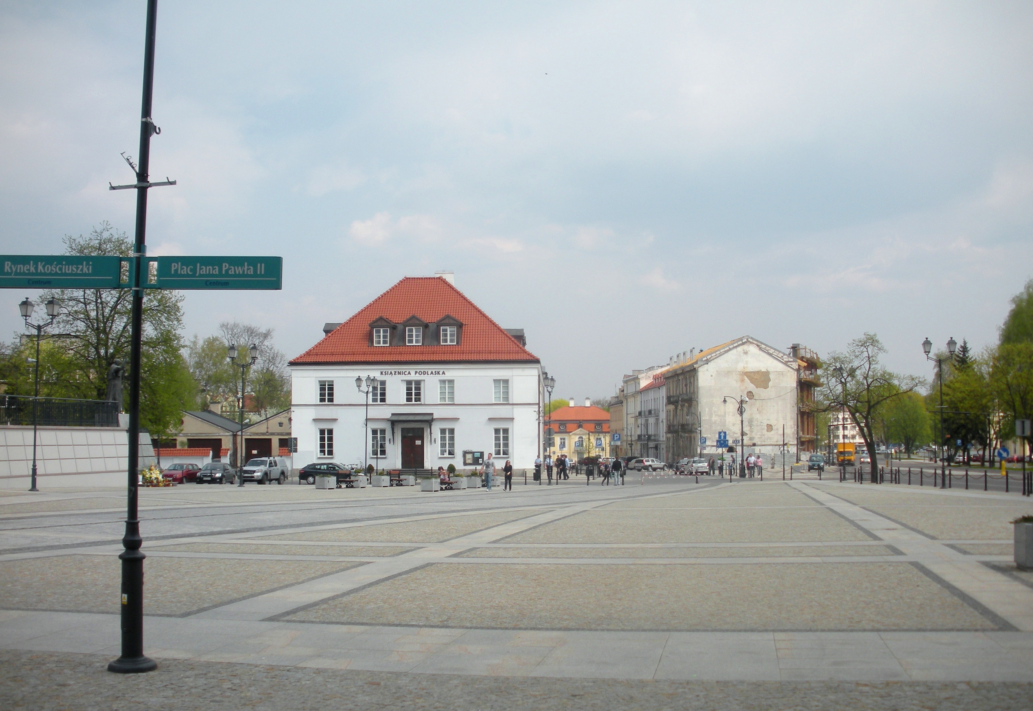 John Paul II's square in Białystok, Poland